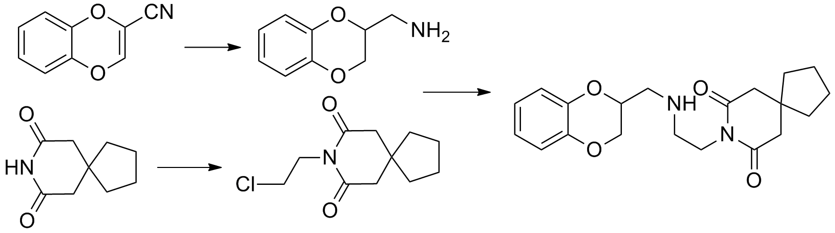 Eur. Pat. Appl. 66773